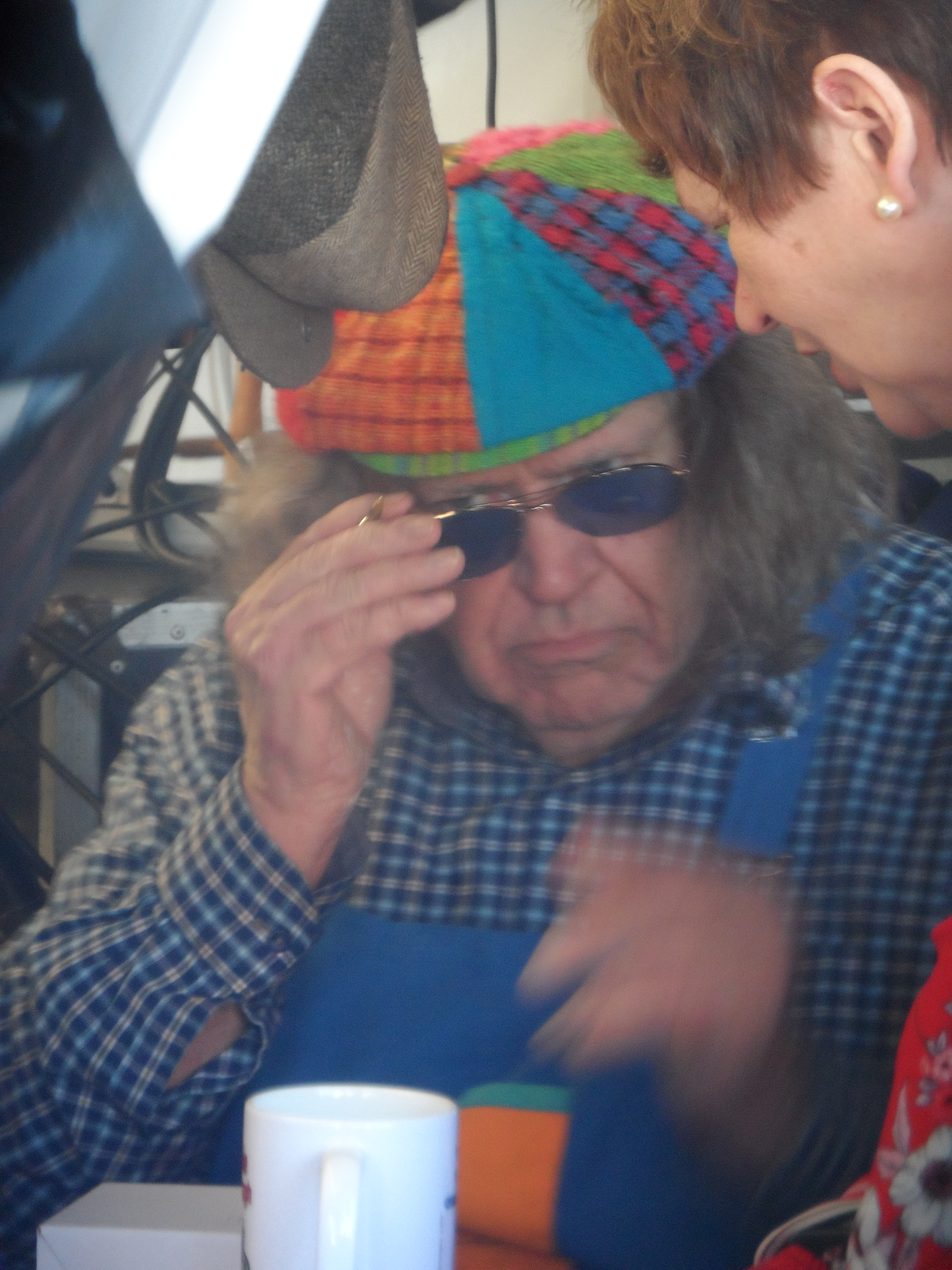 Richie Kavanagh